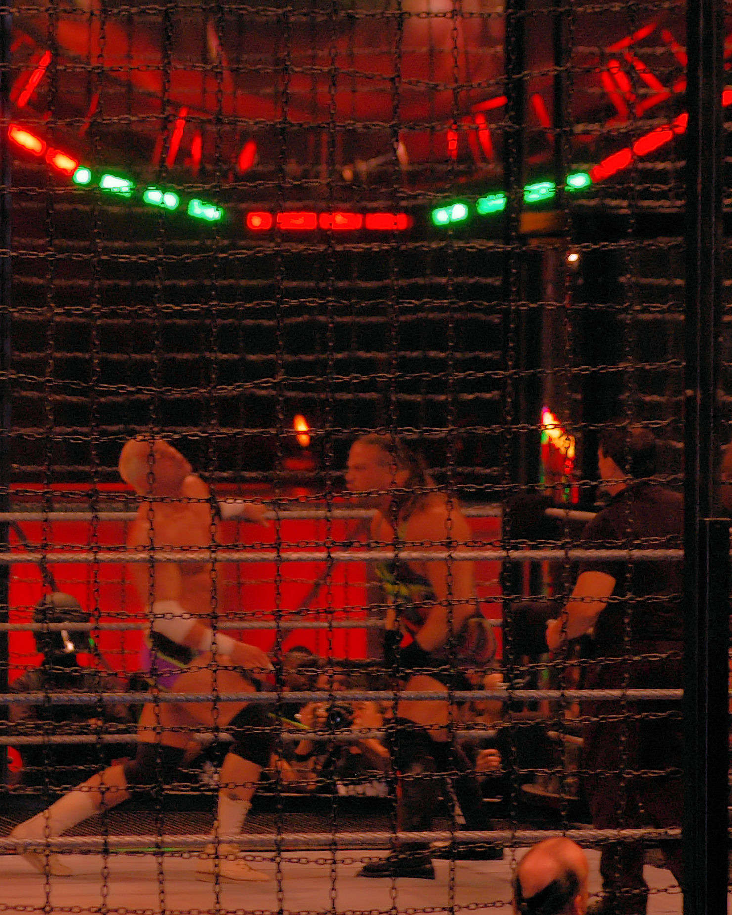 Van Dam facing Hardcore Holly in the Extreme Elimination Chamber at December to Dismember.